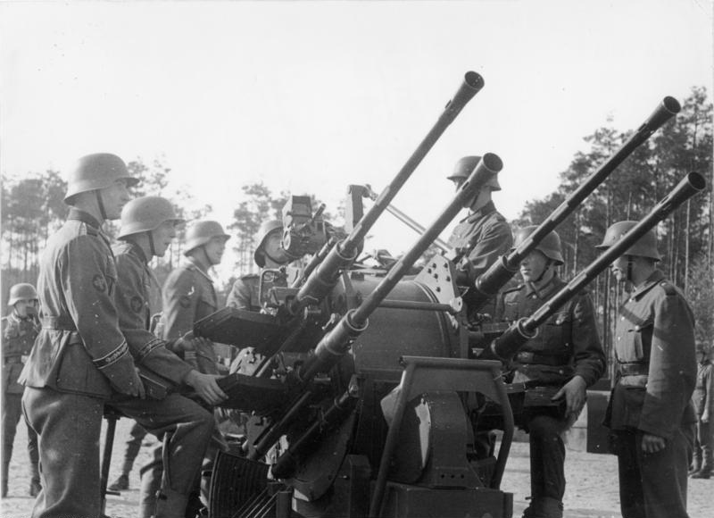 Men of the Panzergrenadieren "Großdeutschland Division training with a Flakvierling, a weapon effective aginst both air and ground targets